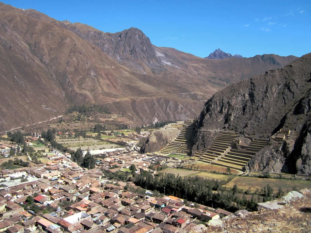 The streets of Ollantaytambo, Peru, were laid out by the Incas. Their terraces still climb the hillsides.